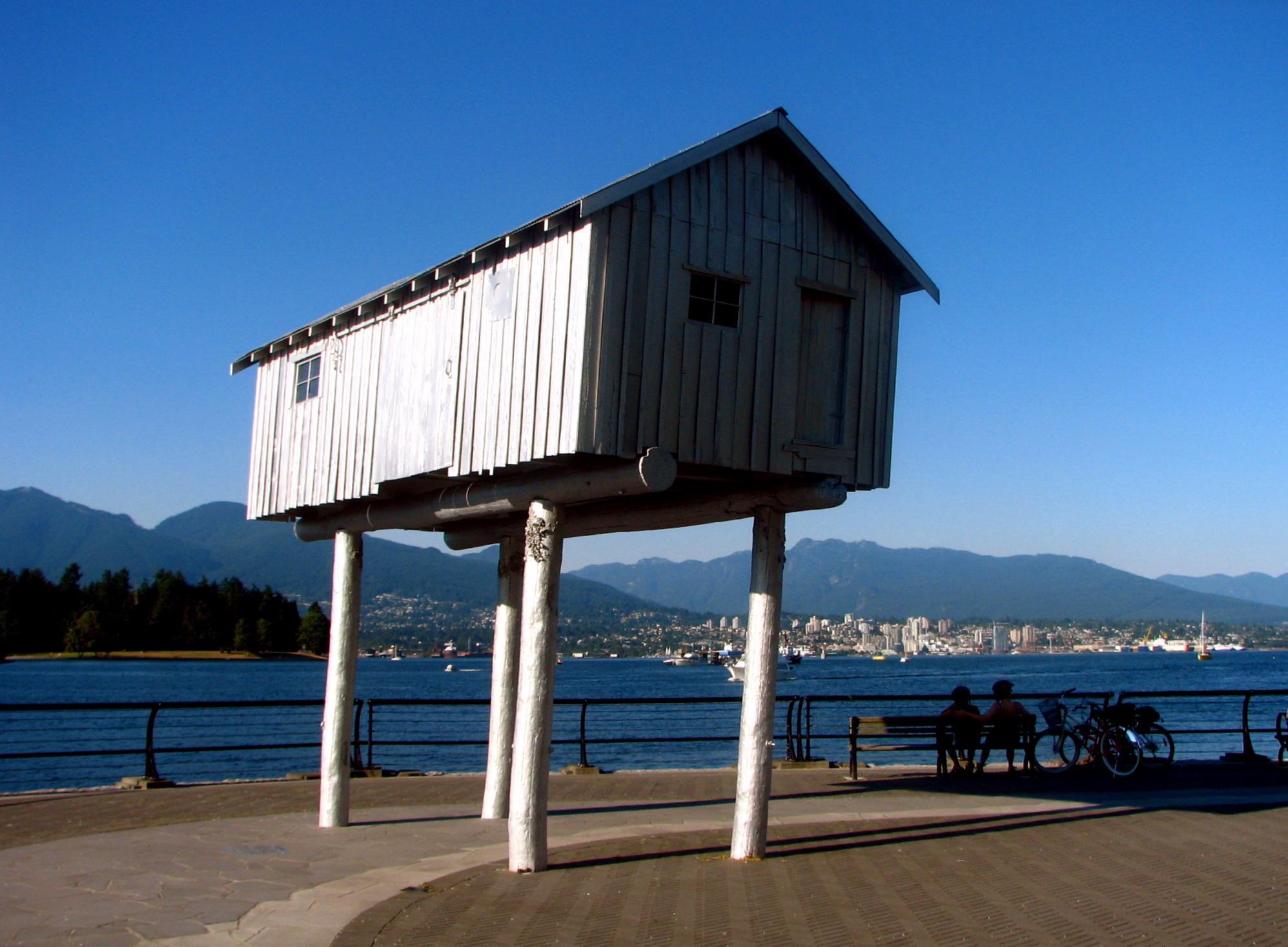 Public art/folly in Vancouver/Canada